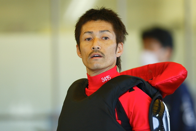 Boat Racer